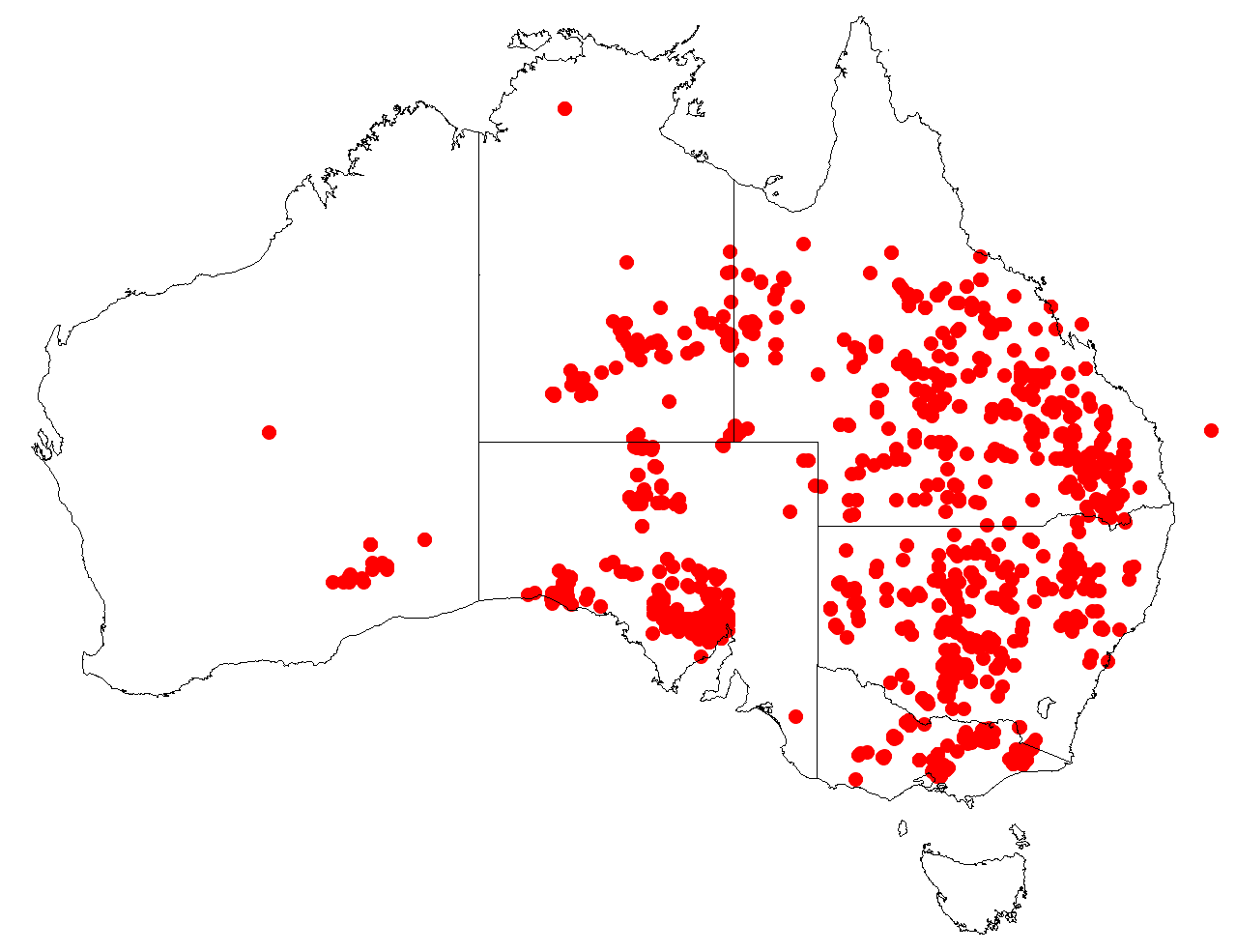 Australian distribution of Amyema quandang based on download from Australasian Virtual Herbarium May 9, 2018